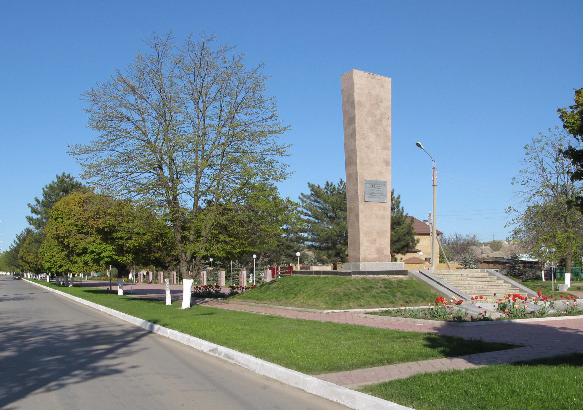 Salsk, Rostov on Don region, Russian Federation. Alley of heroes on Svoboda (Freedom) street